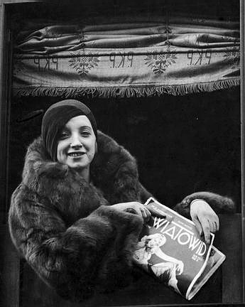 Hanka Ordonówna (Polish actress, dancer and singer) in a train window holding "Światowid" magazine.